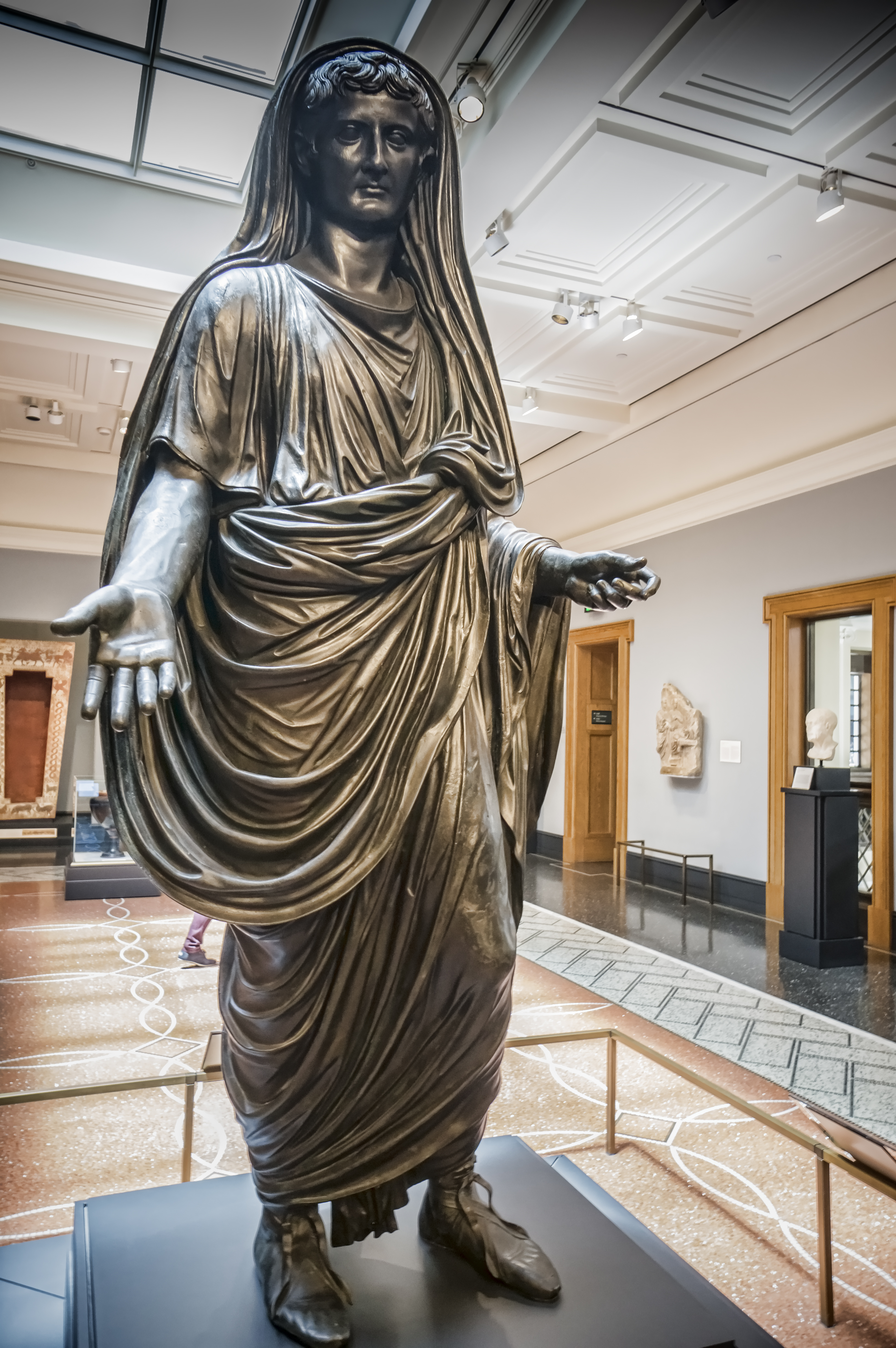 Bronze statue of the Roman emperor Tiberius with head veiled (capite velato) preparing to perform a religious rite found in the theater in Herculaneum 37 CE MANN INV 5615 Although not visible in this image, Tiberius, as pontifex maximus (chief priest) wears a ring on his left hand decorated with a lituus, the carved staff used by augurs to interpret the will of the gods. He also wears the distinctive calceus mulleus, boots reserved for only the highest magistrates. The statue was on loan from the National Archaeological Museum of Naples to the Getty Villa in Pacific Palisades, California and photographed there.